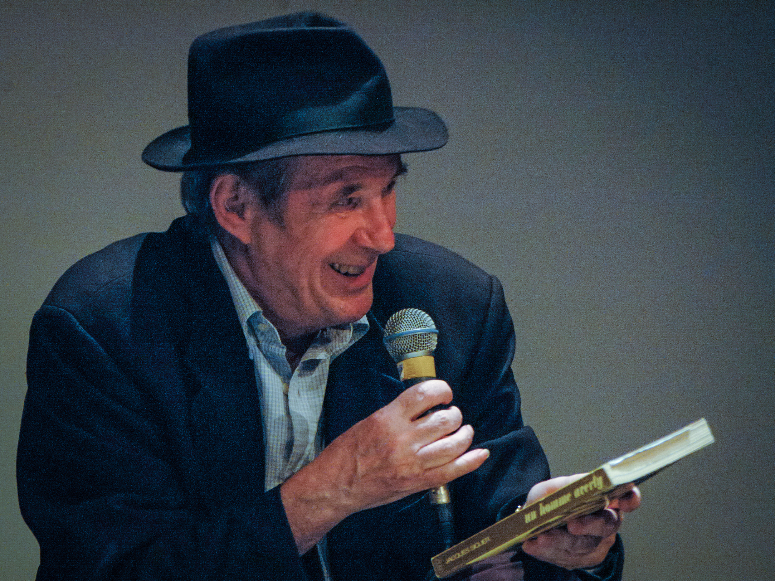 French critic, producer and film maker André S. Labarthe discussing with television and radio producer Jean-Christophe Averty